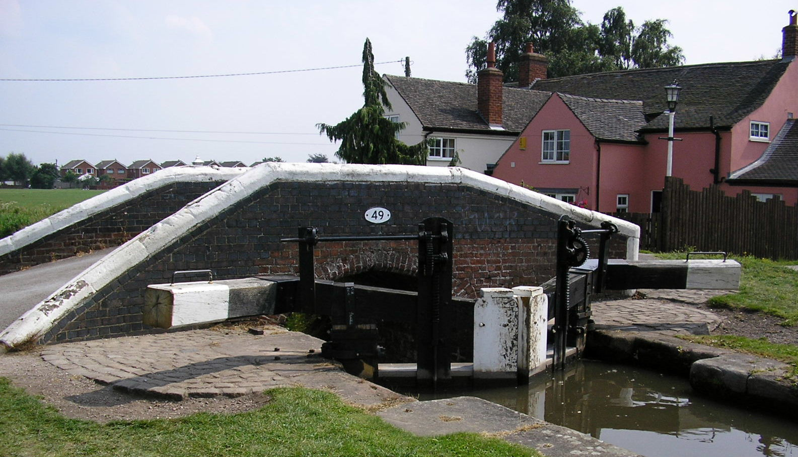 Bagnall Lock, Lock No. 13 of the Trent and Mersey Canal at grid reference SK165148 near Alrewas, Staffordshire with Bridge 49 behind it. The balance beams of the lock gates are unusual in that they each have a right-angle bend to prevent them fouling the bridge. This is very strange since the bridge appears to be contemporary with the lock and there was plenty of space to build the lock a couple of yards further away.